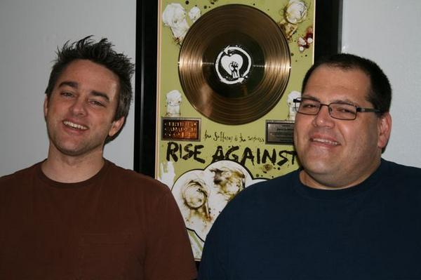 Jason Livermore (left) and Bill Stevenson (right), owners and operators of the The Blasting Room, standing in front of Rise Against's gold record for The Sufferer and the Witness.